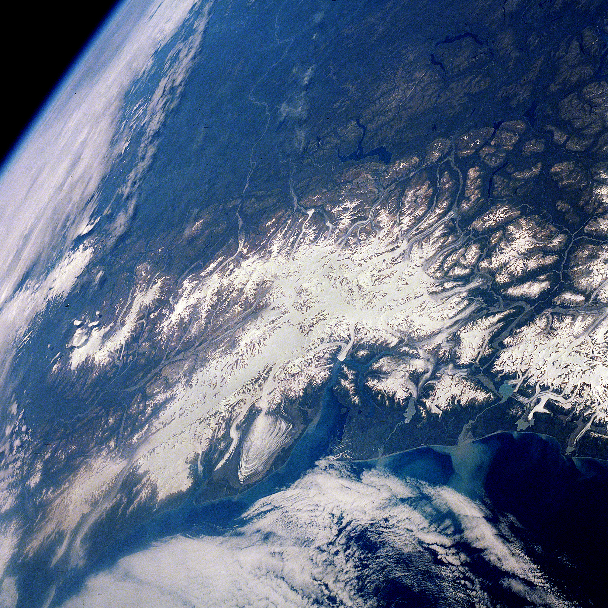 Alaska and the vast Malaspina Glacier photographed from Columbia on mission STS-28.